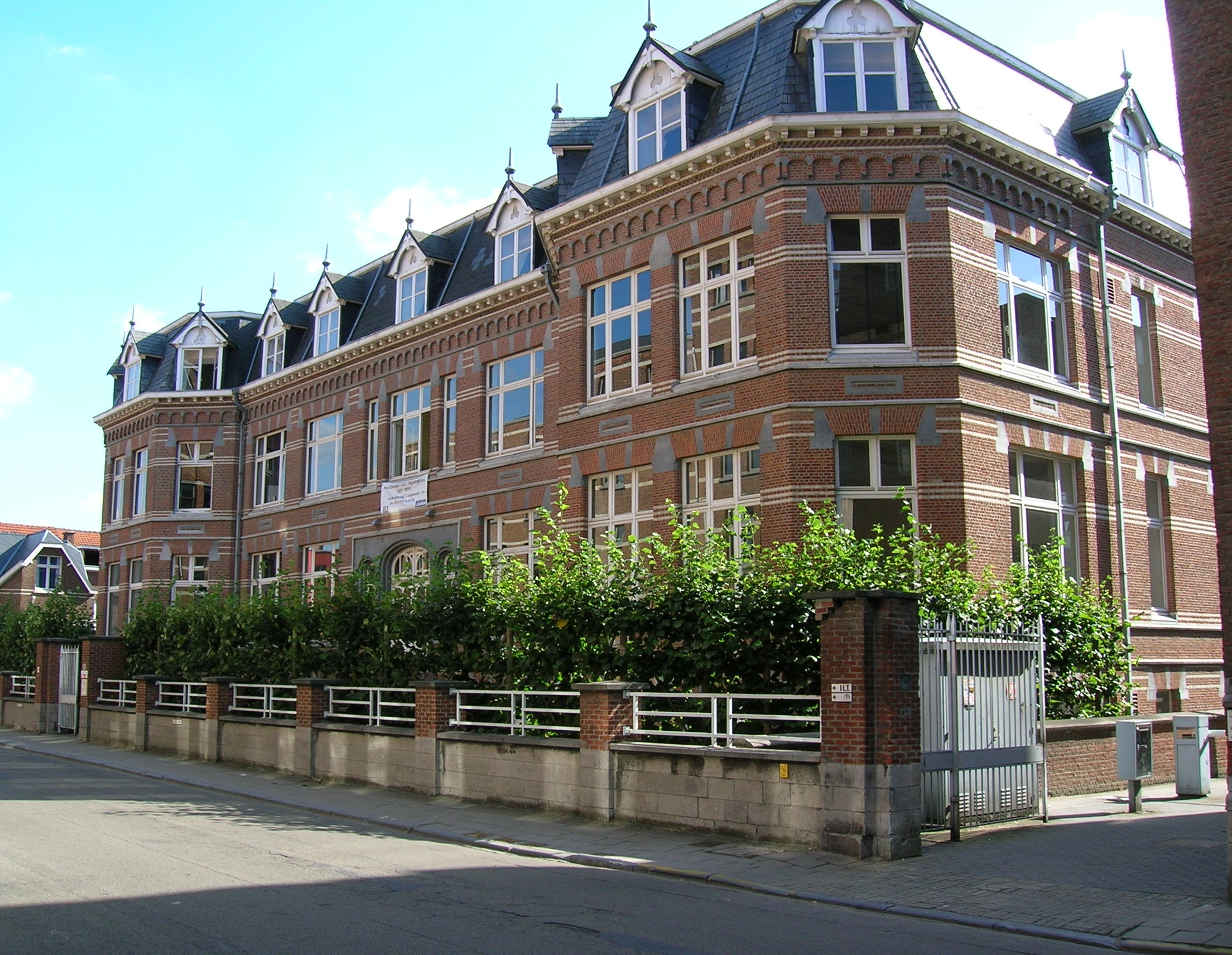 Building of the Centre for Living Languages (Centrum voor Levende Talen, CLT) in Leuven, Belgium. View of the front, from the right.